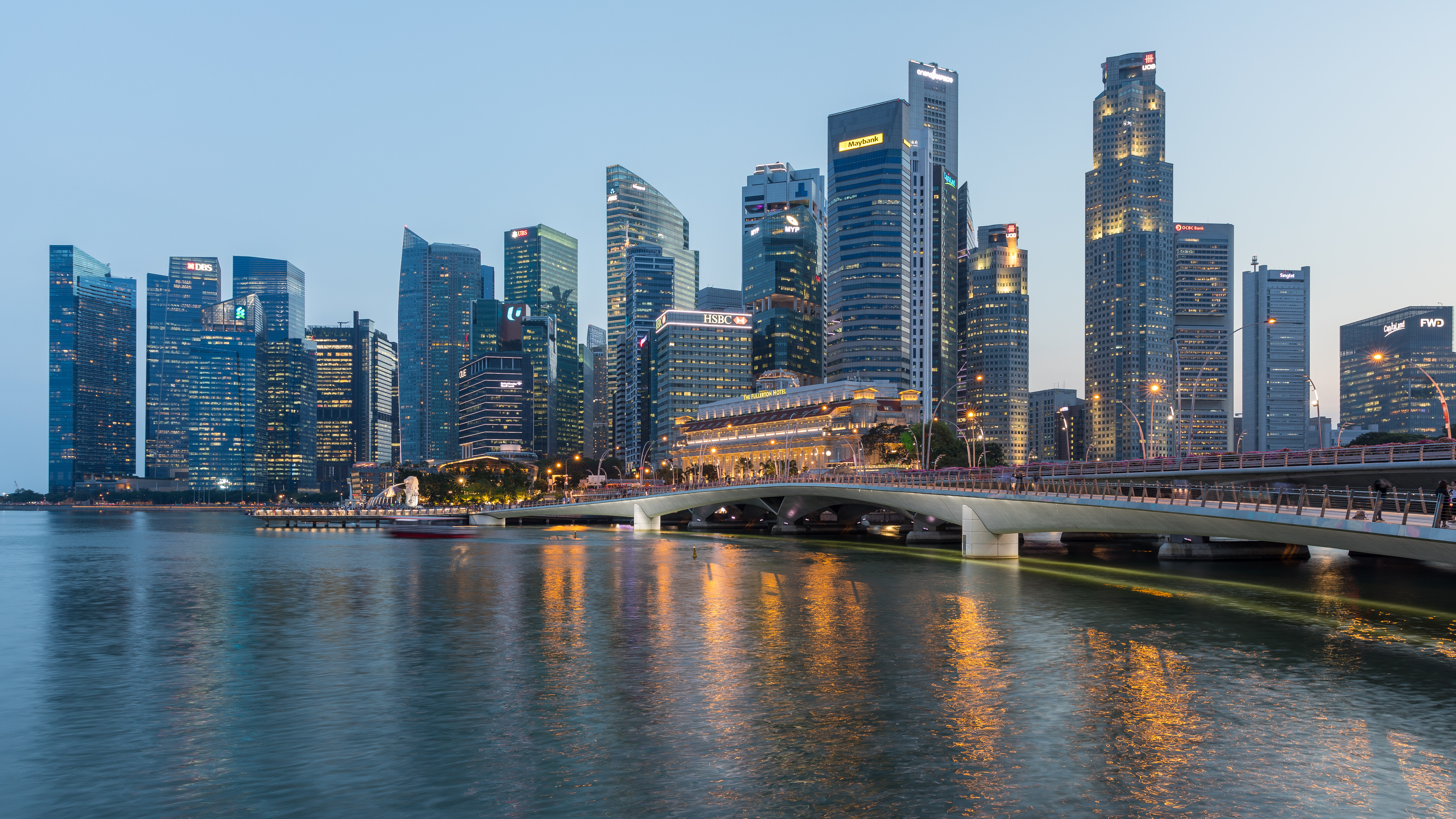 Skyline of the Central Business District of Singapore with the Esplanade Bridge and The Fullerton Hotel, in the evening.